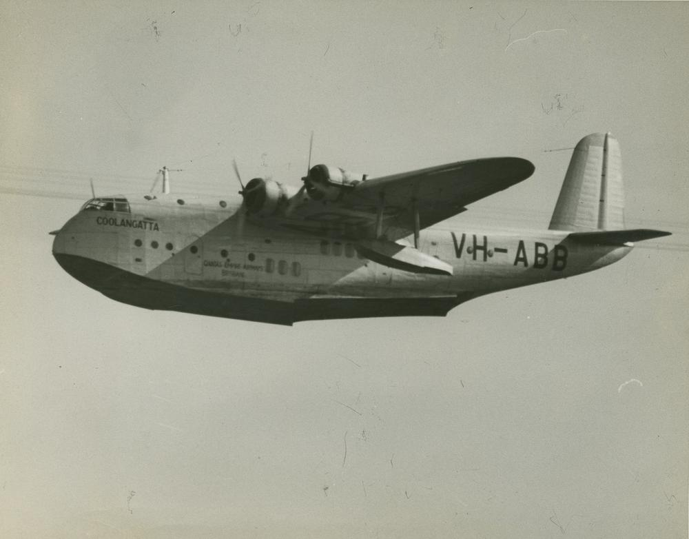 Qantas Short C Class Empire flying boat VH-ABB 'Coolangatta', ca. 1940.